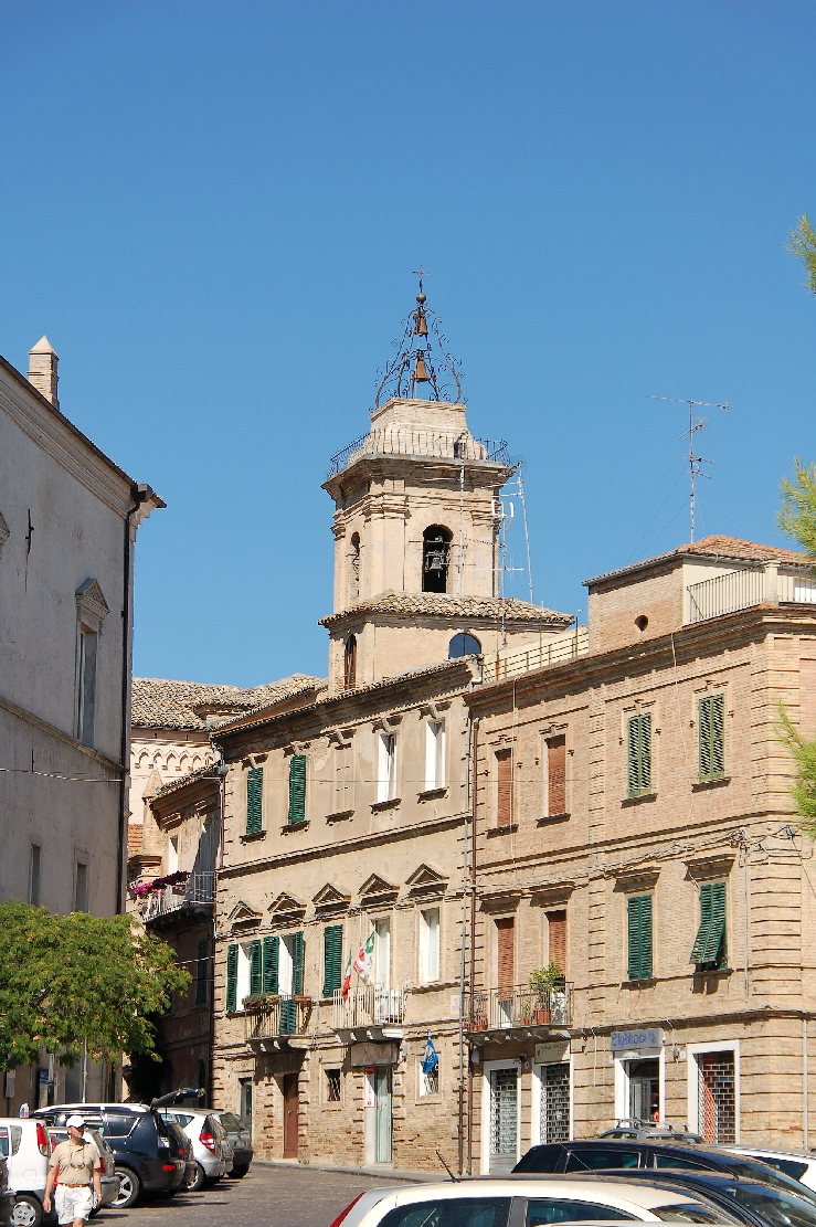 Vasto 2011